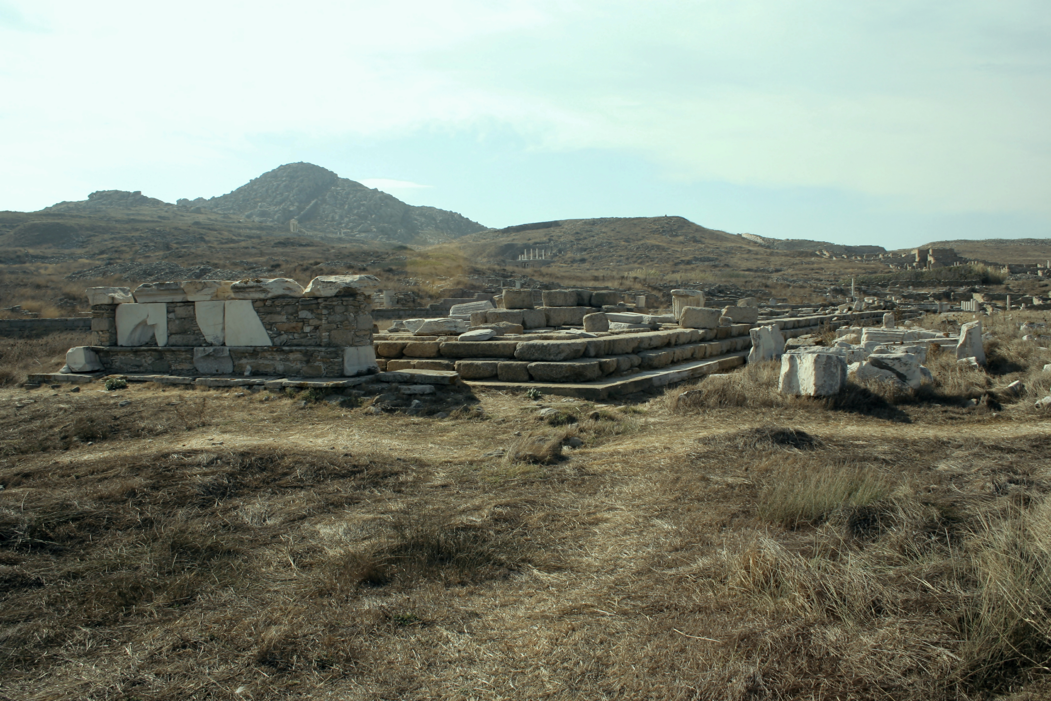 Neorium. Older nameː Monument (Building) with the Bulls ("Monument of the Bulls"). Very long building was used in Hellenistic times about the storage vessel. 67.2 x 8.86 m, ca 300 BC